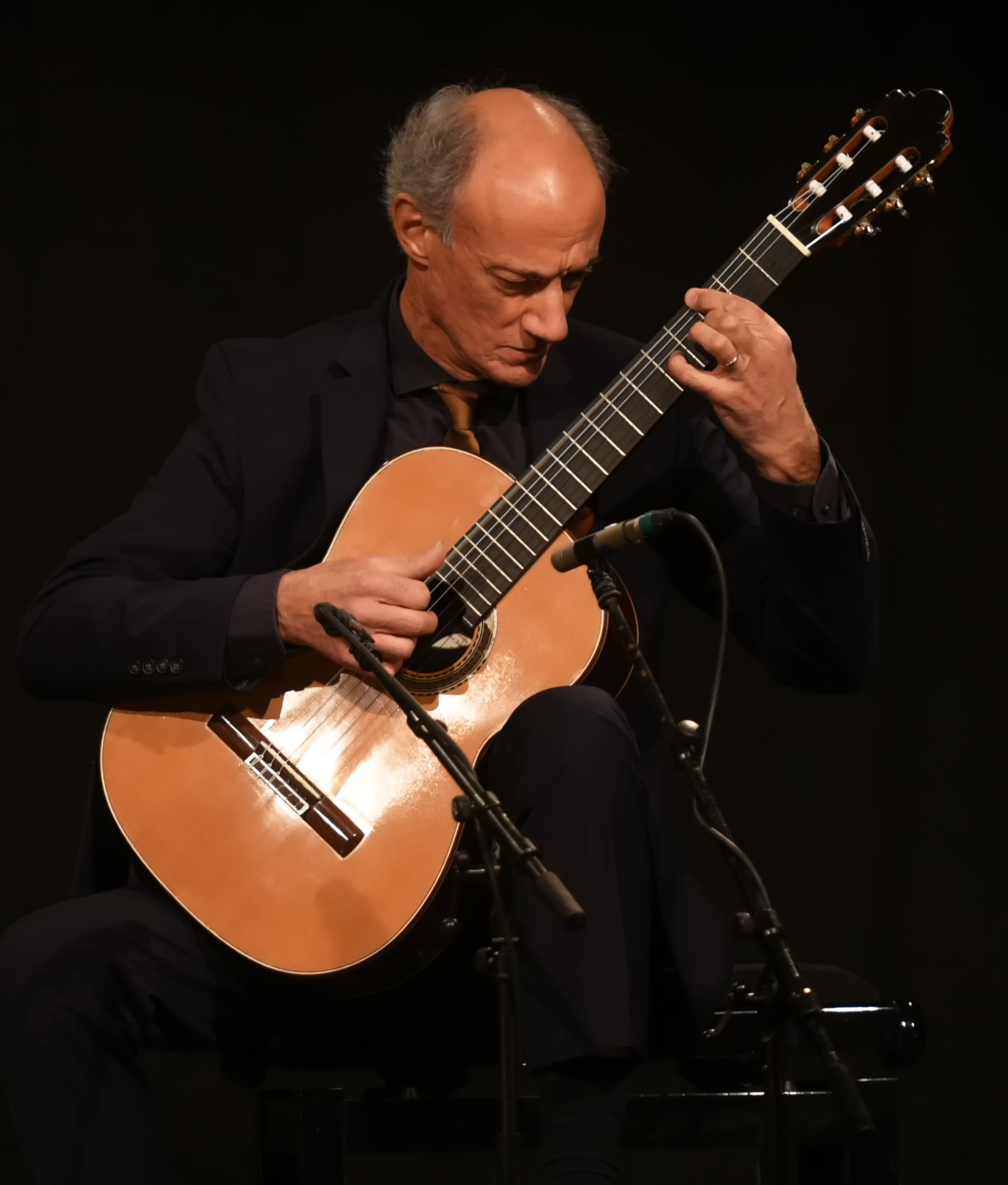 Roberto Aussel playing at Hamburger Gitarrenfestival 2018